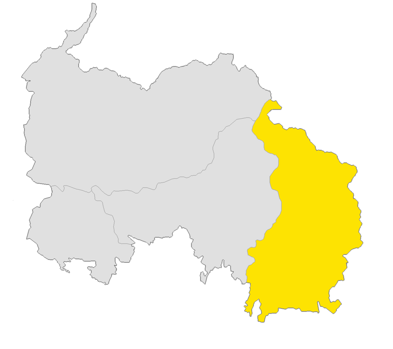 South Ossetia's Leningor district